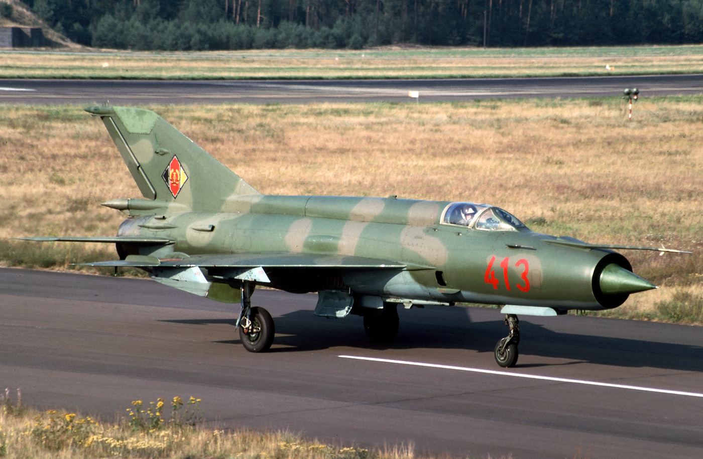 The East Germans operated the MiG-21M next to the MF-version. The MF had an upgraded engine and a better radar. You can easily distinguish them by looking at the canopy: the MF has a rear-view mirror and the M doesn't. Many M's were based at Drewitz with Fighter Squadron JG-7 and Reconnaissance Squadron TAFS-47. August 1990